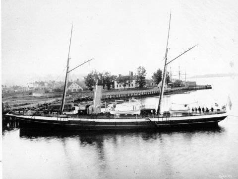 The Iron Fisheries Cruiser was purchased by the Canadian government in 1895, and scrapped in 1910.